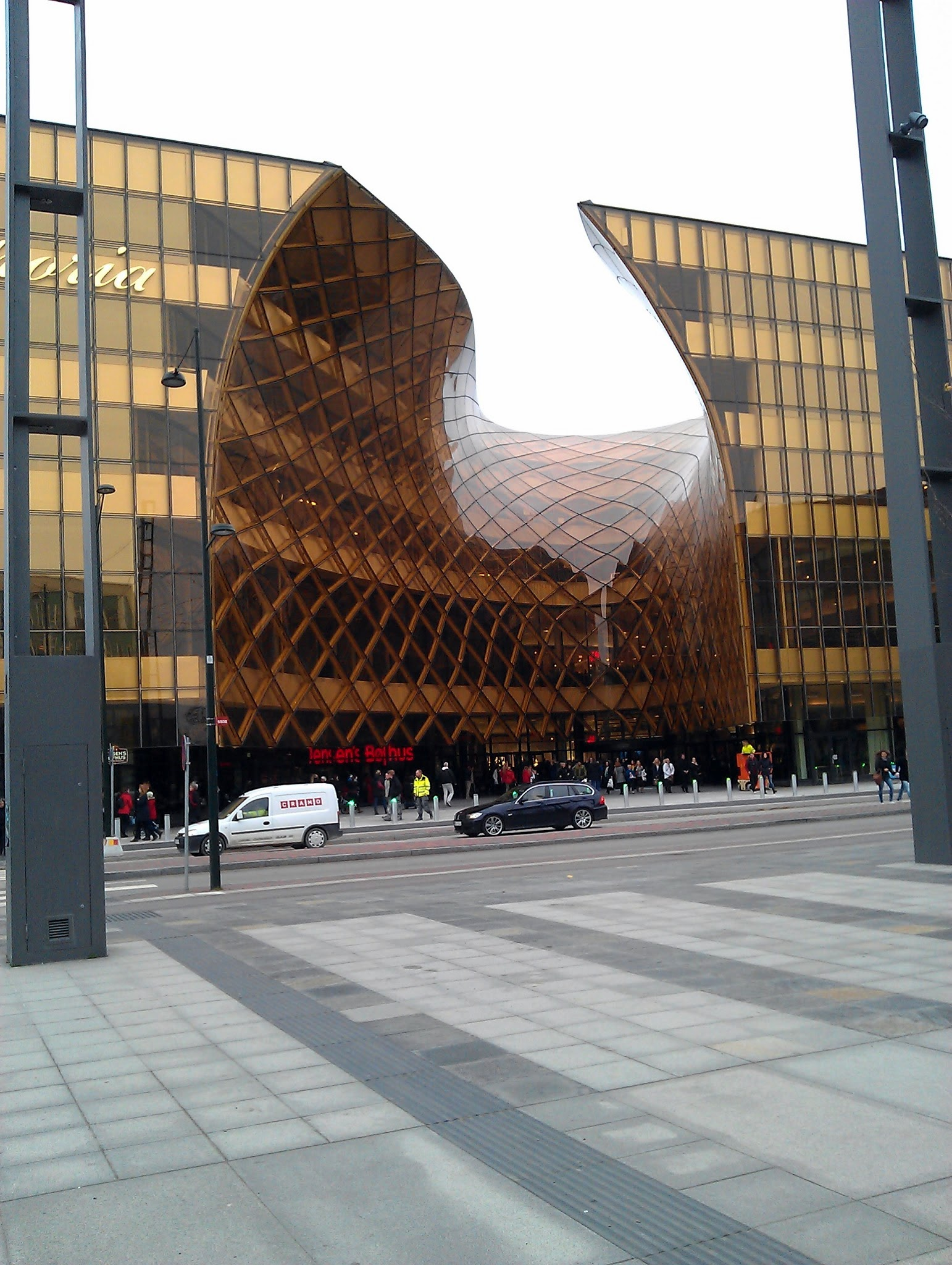 Emporia shopping mall entrence